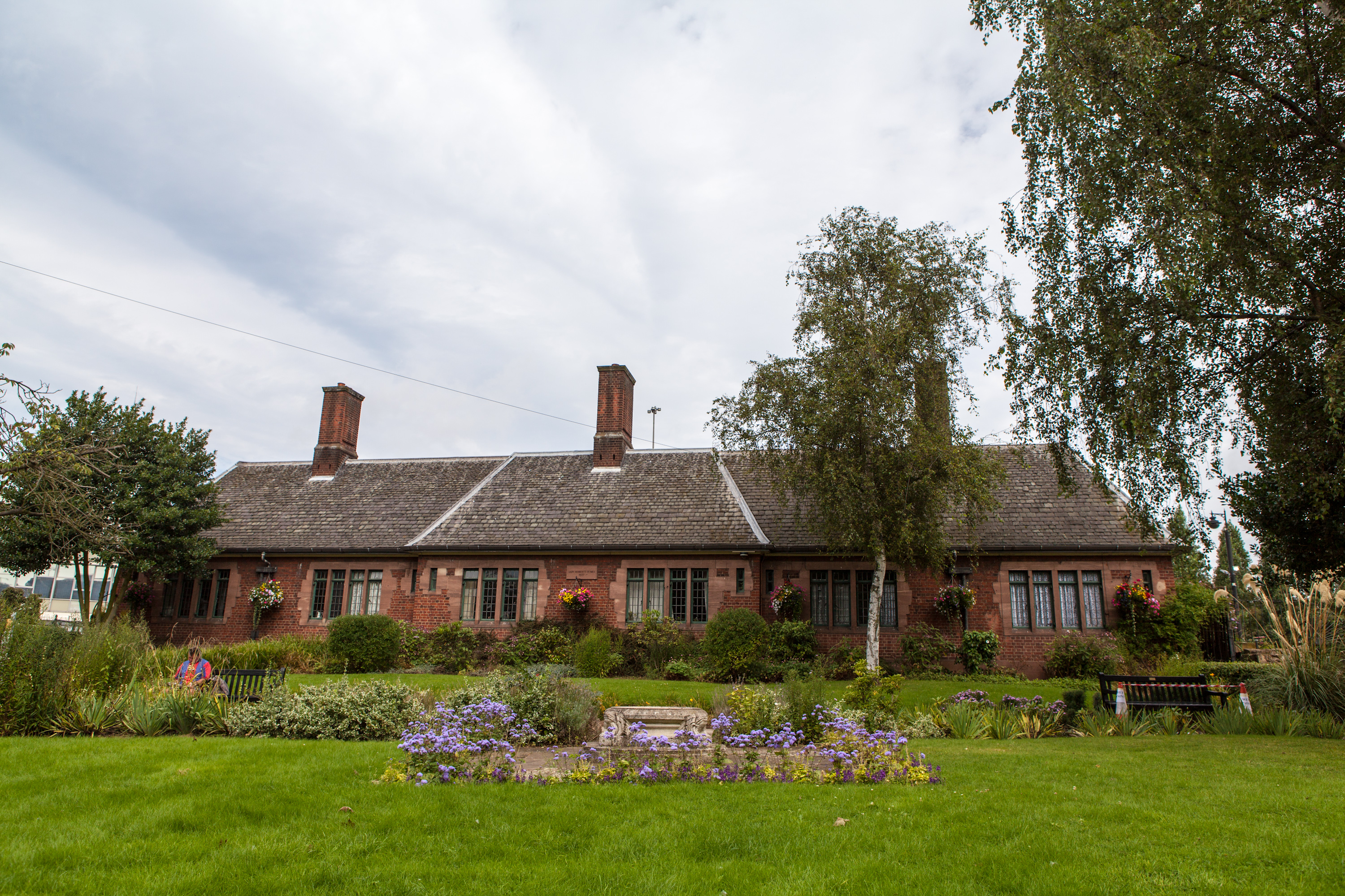 A8 - Lady Herbert's Garden in Coventry, UK